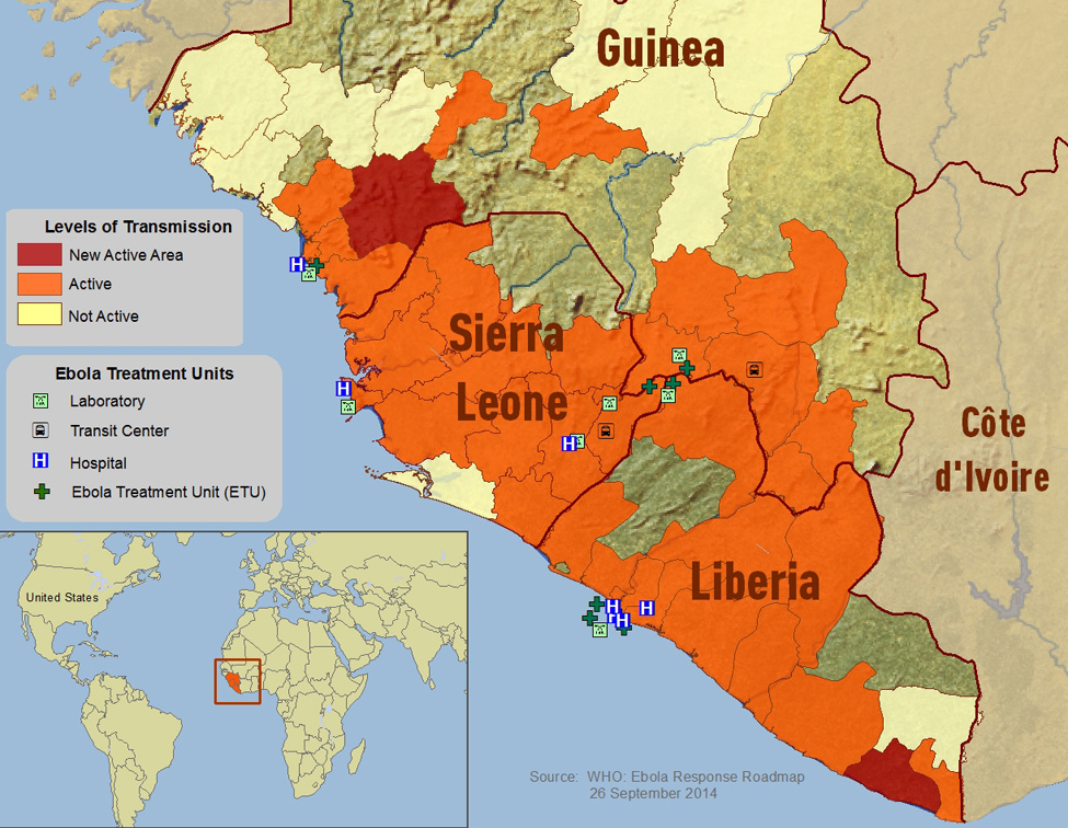 This is a map from a government publication on the spread of ebola in Guinea Sierra Leone as of July 2014 (Original file).• 1. Update: 2014-06-26; • 2. Update: 2014-08-09; • 3. Update: 2014-09-04